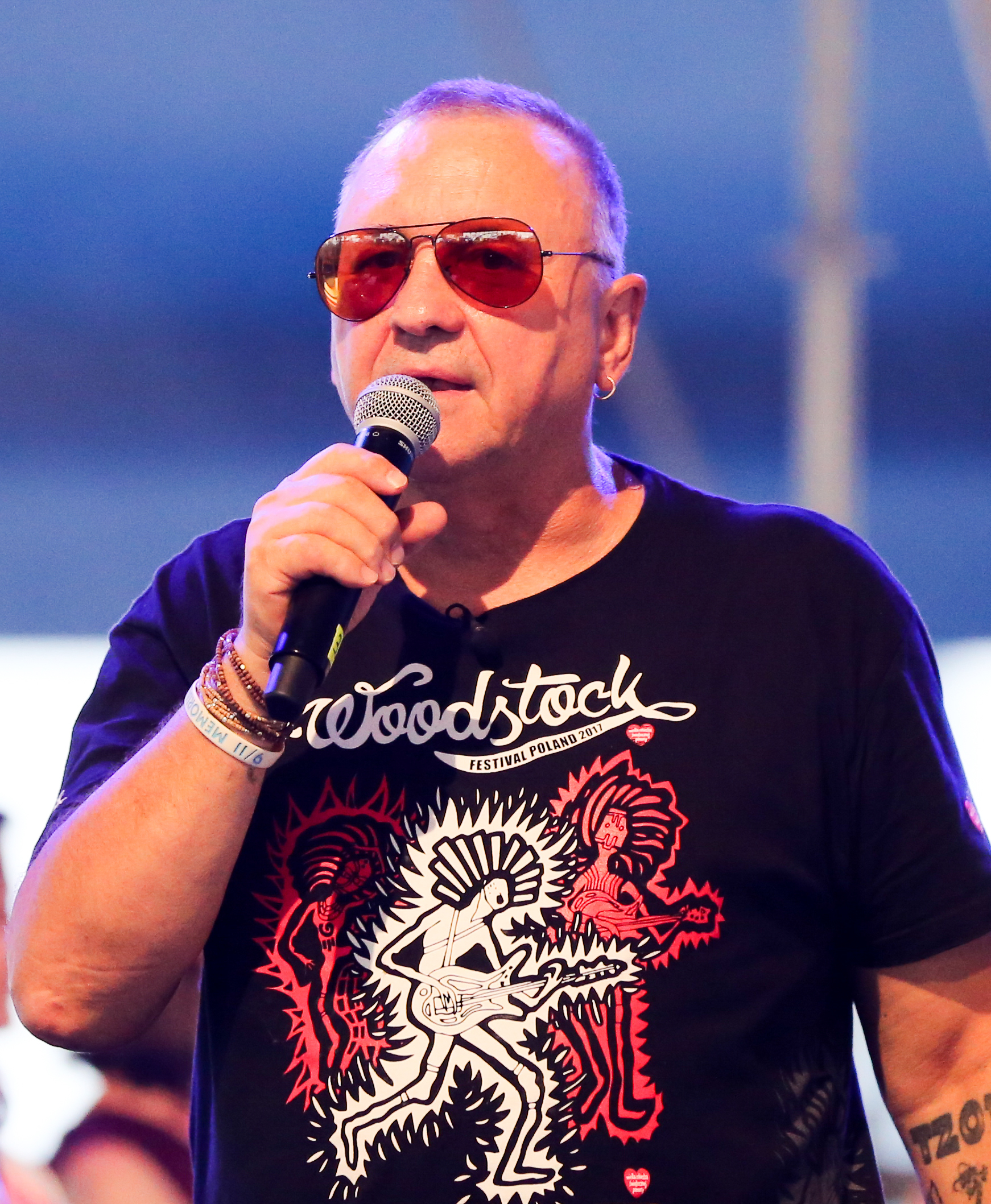 Przystanek Woodstock in 2017.